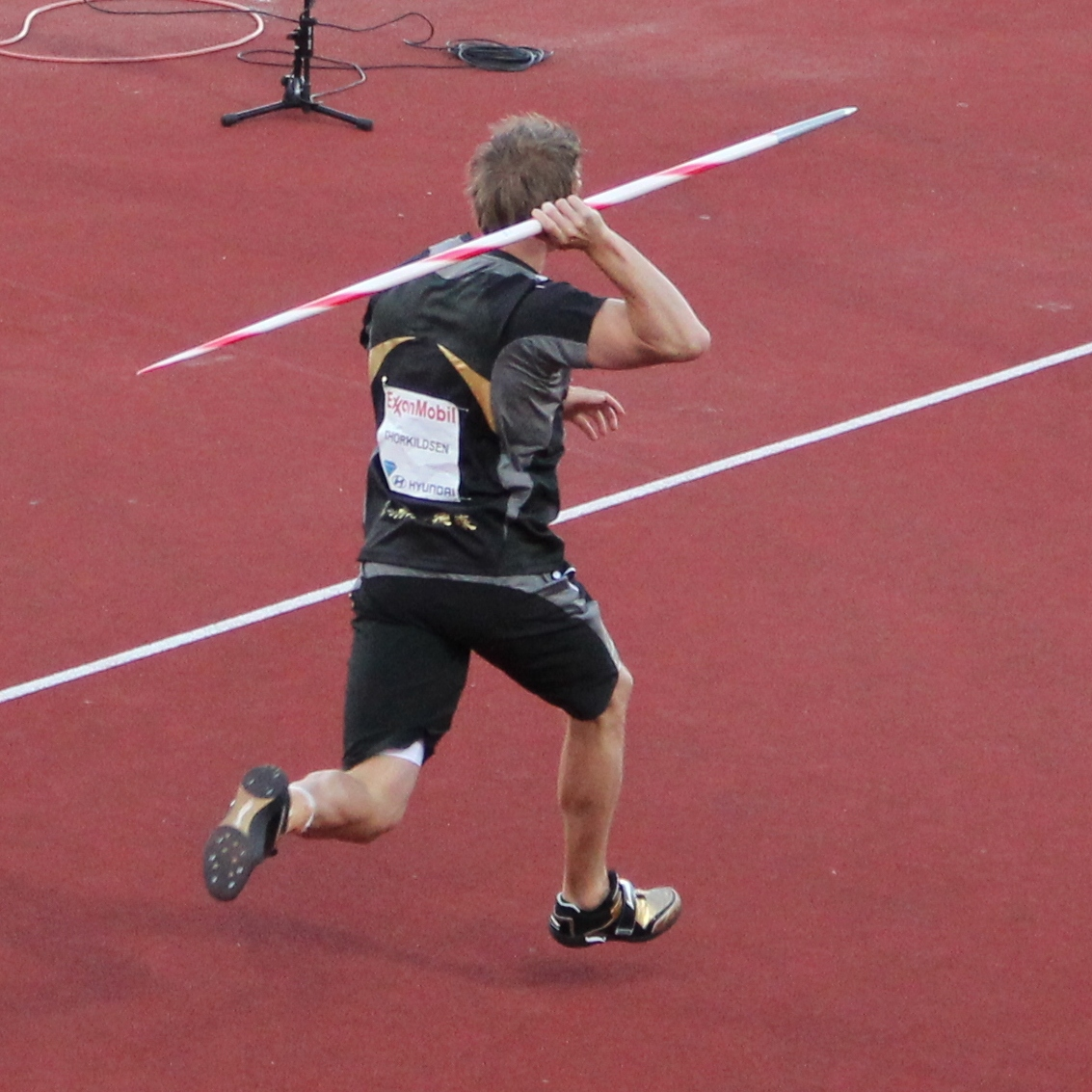 Andreas Thorkildsen in the approachrun at the 2010 Bislett Games